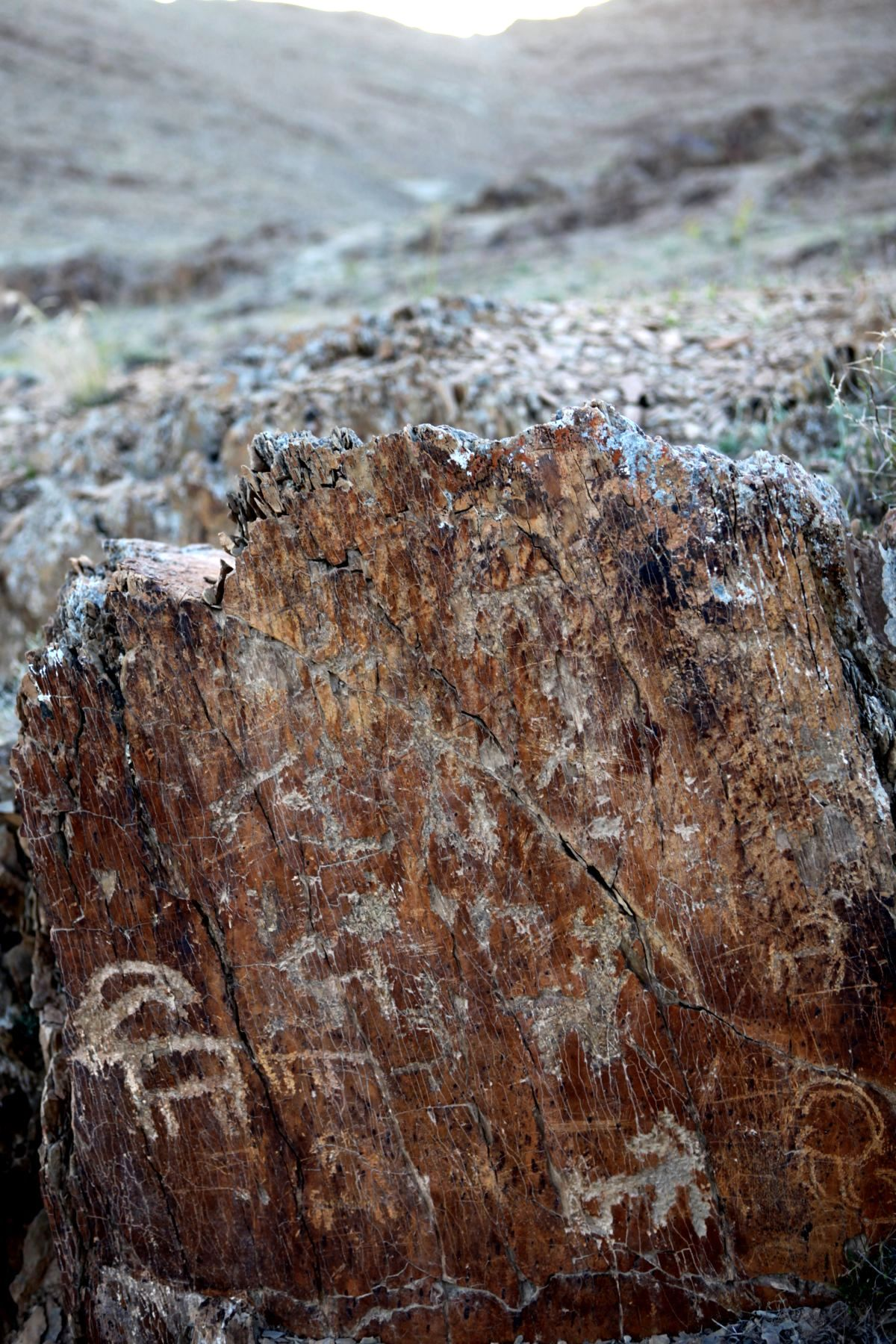 Petroglyphs in Teimareh, Iran